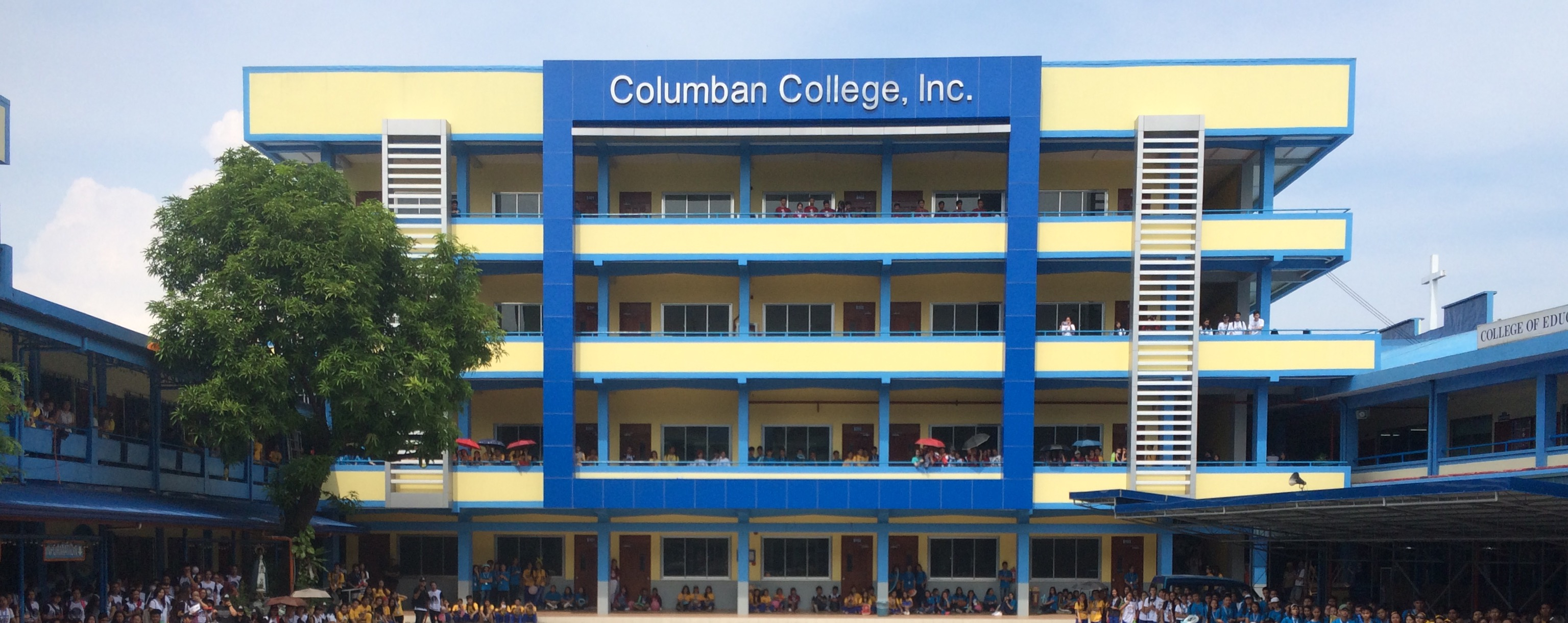 Senior High School Building of Columban College Inc. The building itself was the new feature of the campus to accomodate the numbers of students. they named the building in hnor to the first bishop of the Diocese of Iba Henry Byrne. it was constructed on April 2016. the picture was captured on September 23, 2017.